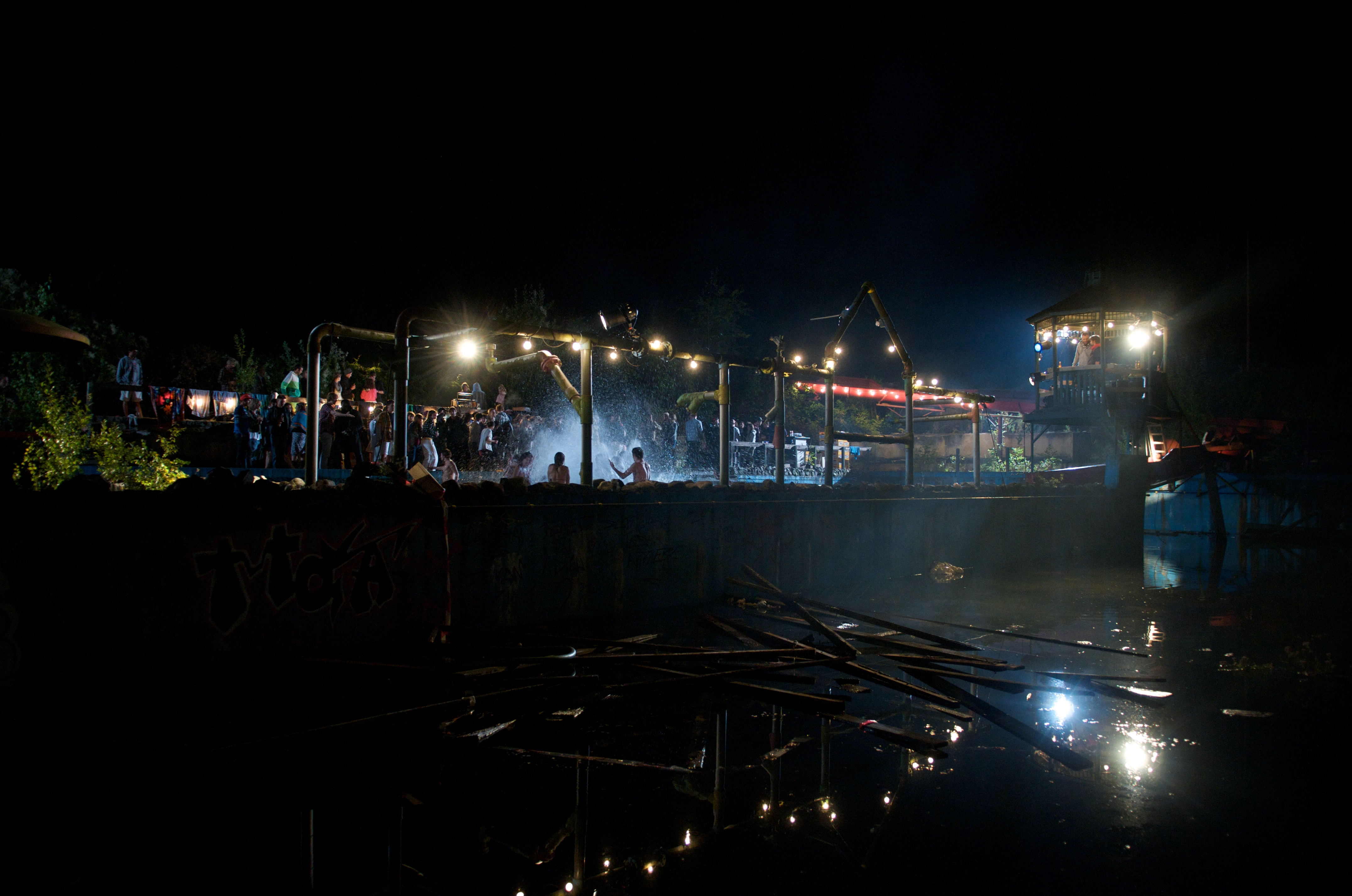 Poolparty videoclip Jan Maessen